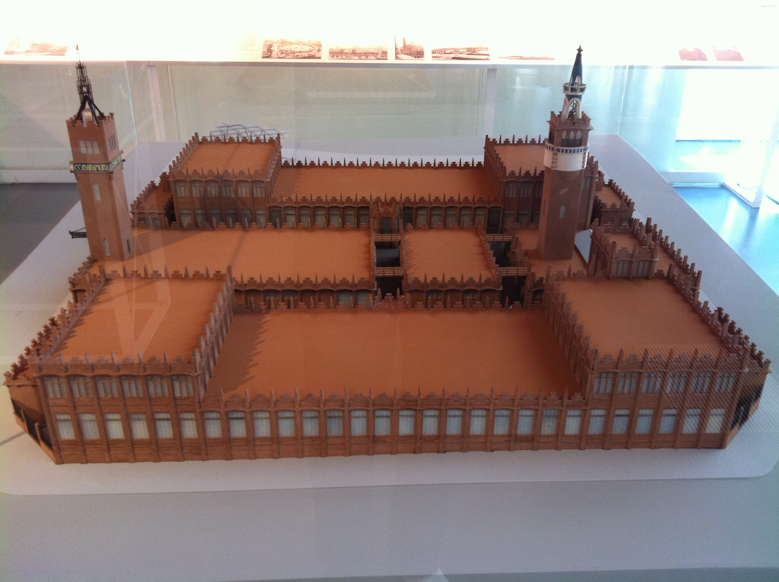 Scale model of the Casaramona factory, exhibited at CaixaForum Barcelona.